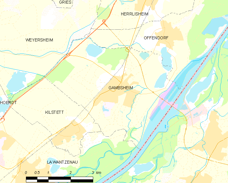 Map of French municipality